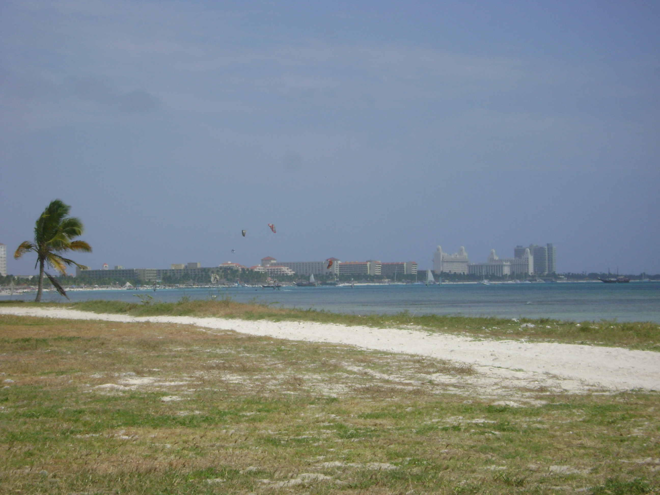 High Rise area Aruba